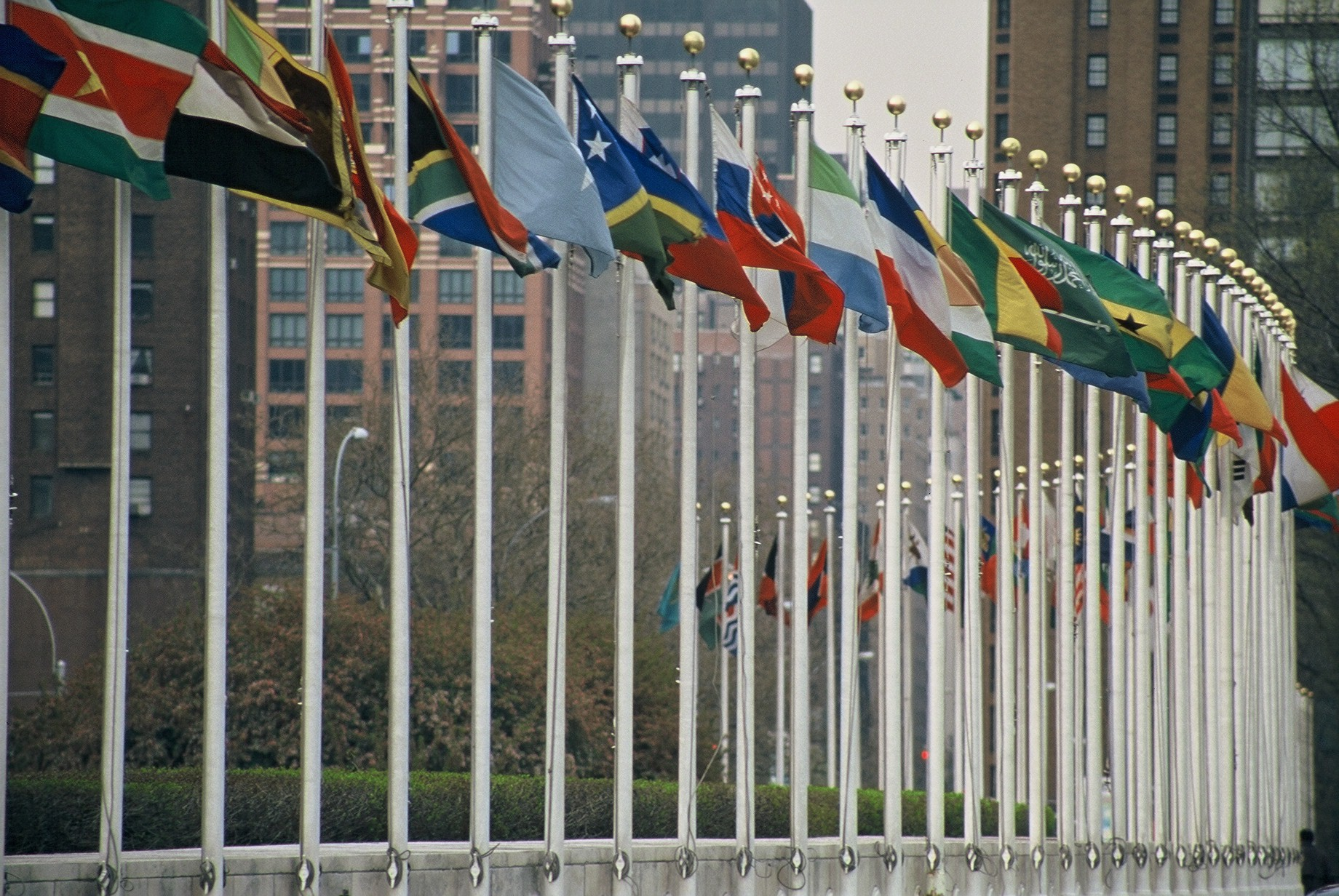 UN Members' flags - the UN Headquarters, New York